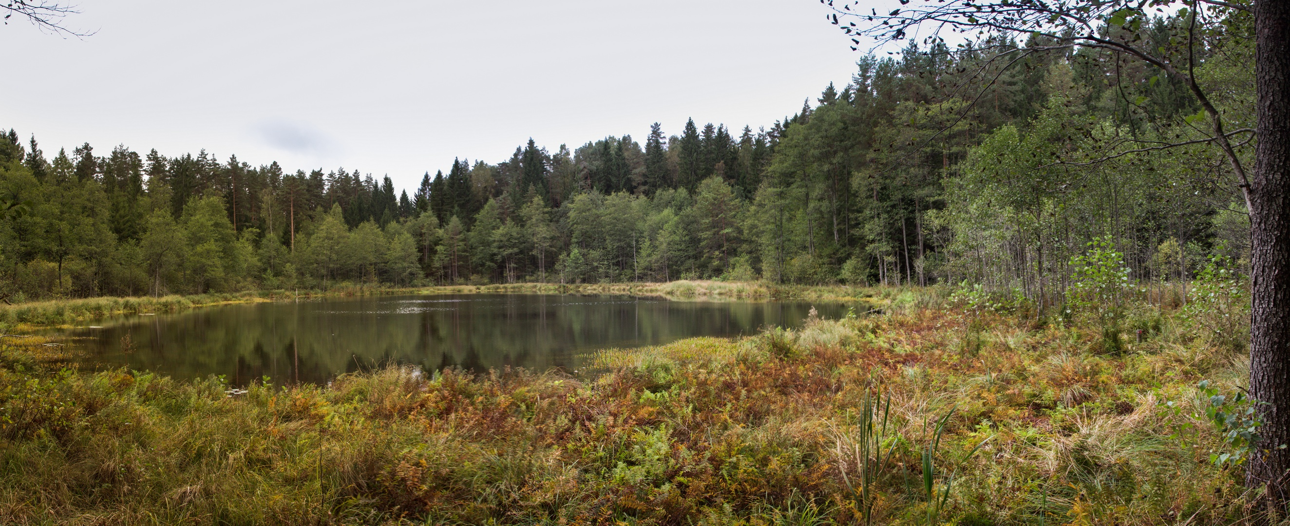 Lestoniskis Lake (Siauliai district, Lithuania) - panorama